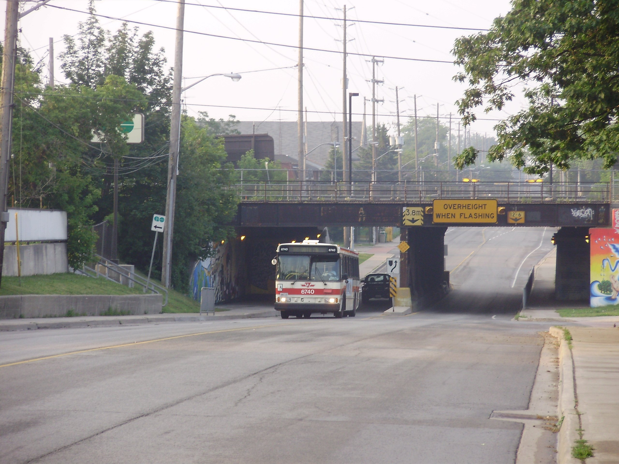 Looking south down Royal York Road, bridged by the railway line, at the edge of Coronation Park in Mimico, a neighbourhood in Toronto, Canada. TTC bus #6740, serving the 76 Royal York South route, is visible emerging from beneath the bridge.